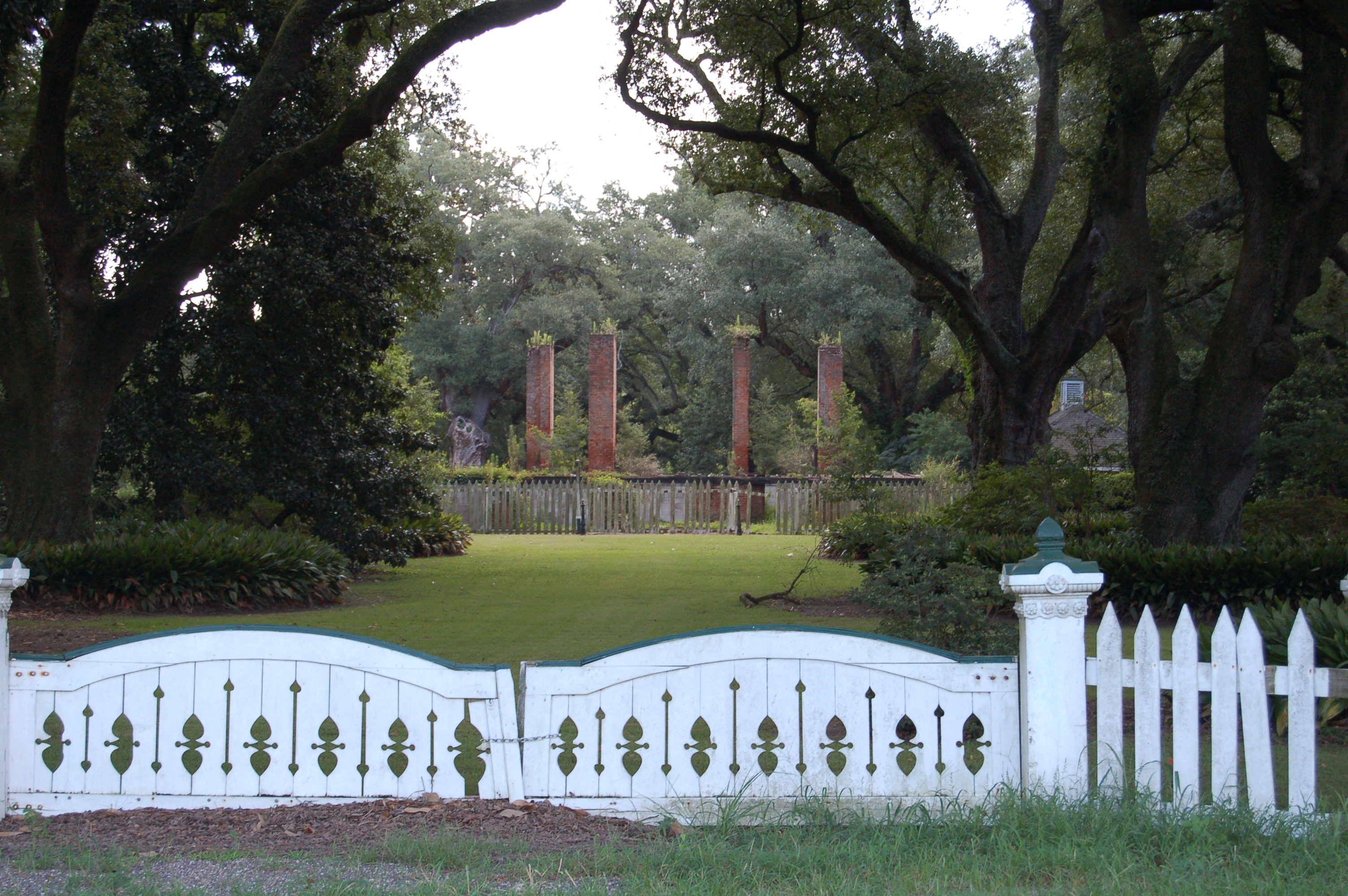 Tezcuco